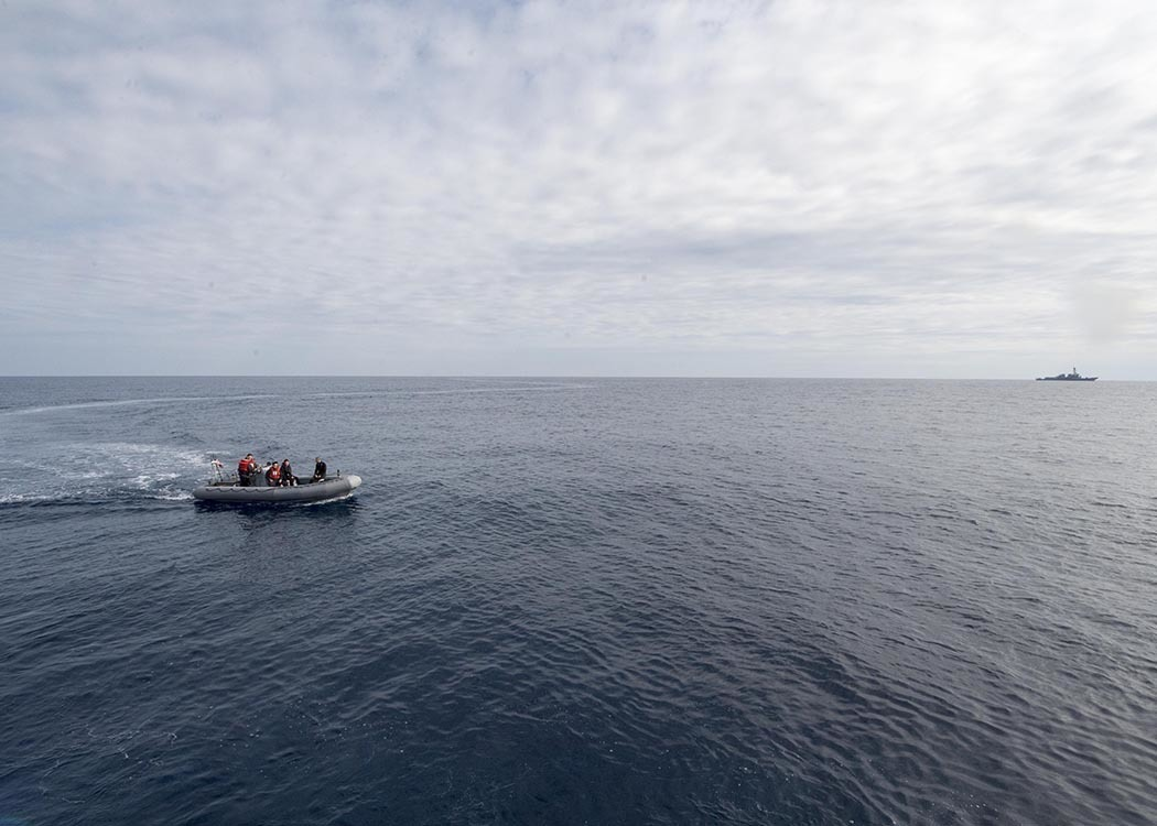 150310-N-ZY039-042 ATLANTIC OCEAN (Mar. 10, 2015) - Sailors assigned to the Search and Rescue team navigate in the rigid-hull inflatable boat (RHIB) during an exercise. Normandy is deployed conducting maritime security operations and continuing a forward presence with partner nations. (U.S. Navy photo by Mass Communication Specialist 3rd Class Justin R. DiNiro/ Released)